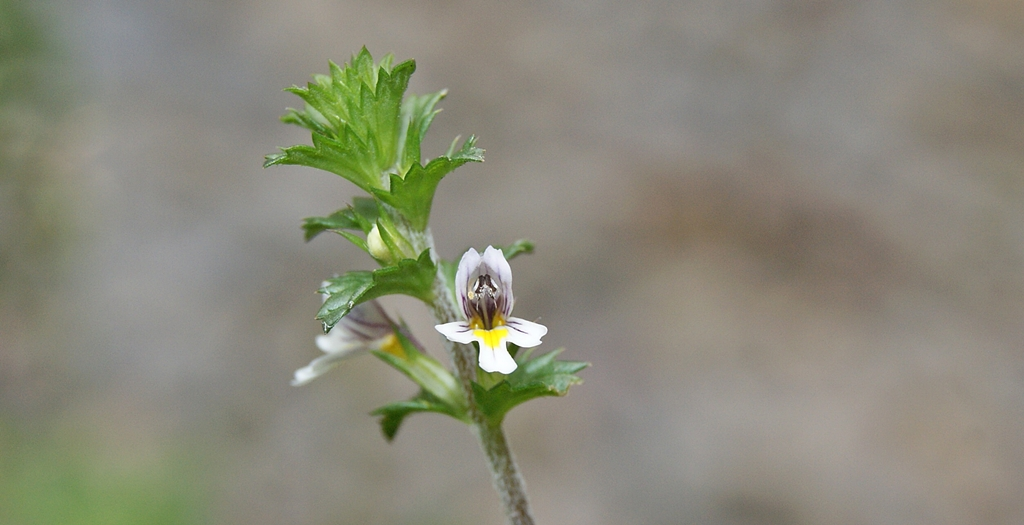 Euphrasia nemorosa, Germany.